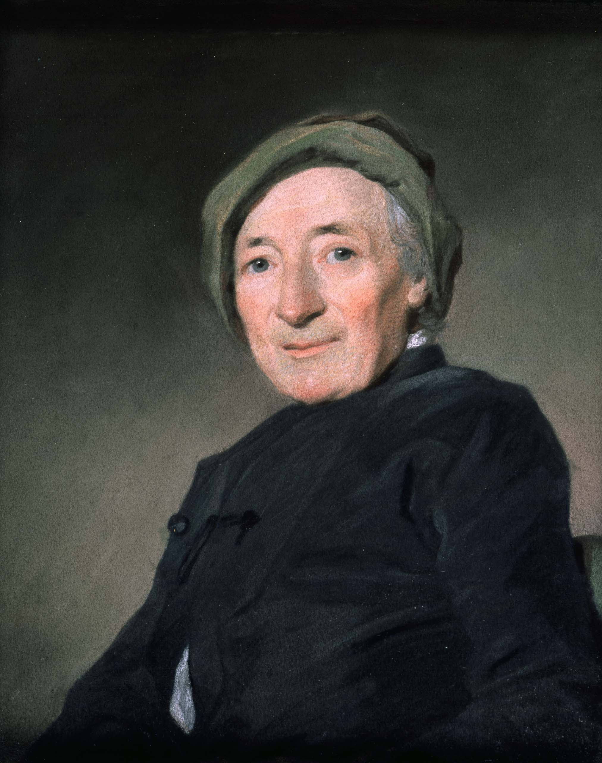 Portrait of Elie Luzac (1721-1796), Dutch writer and publisher